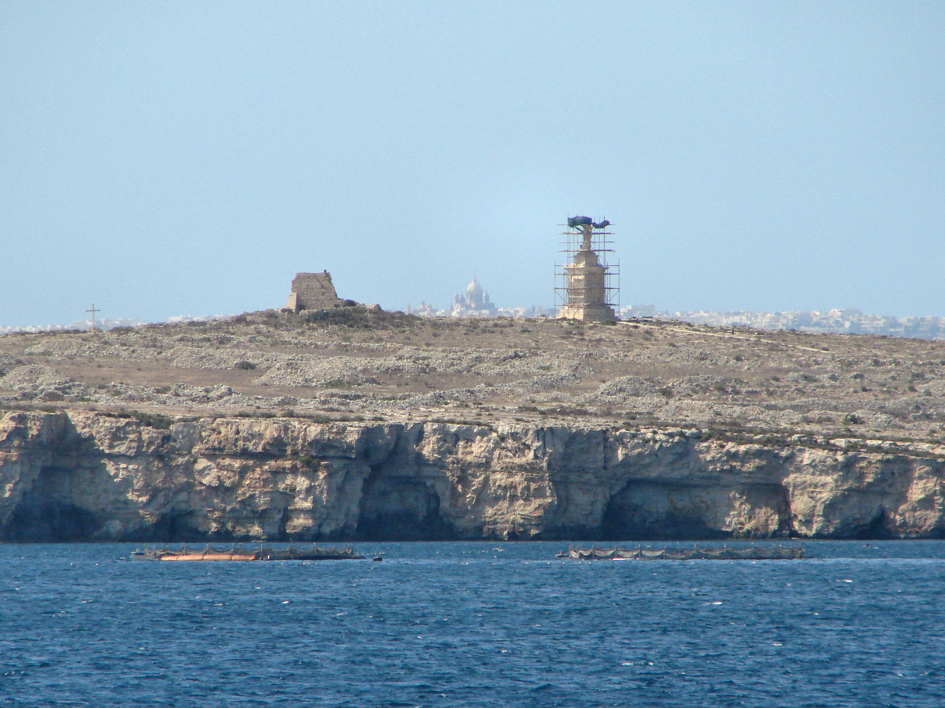 Republic of Malta, St. Paul Islands - Fort ruins and St. Paul statue (with support structures for renewing); Gozo on background